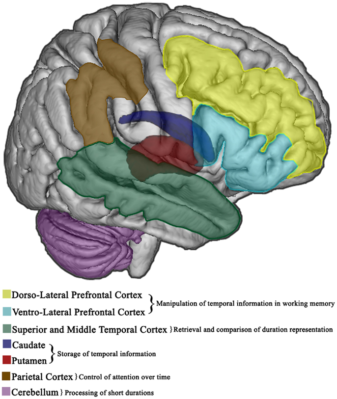 Explicit timing in the brain. Cortical and subcortical brain regions involved in the overt estimation of elapsed time (explicit timing). The functional role of different areas in the diverse information processing stages is also specified.